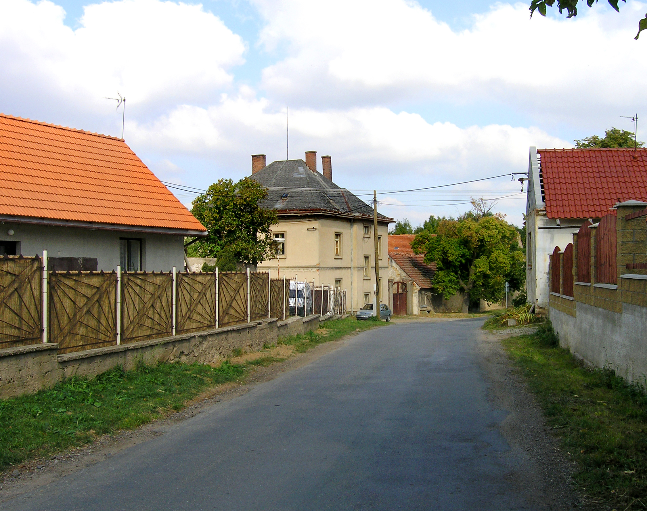 South part of Vrátkov village, Czech Republic